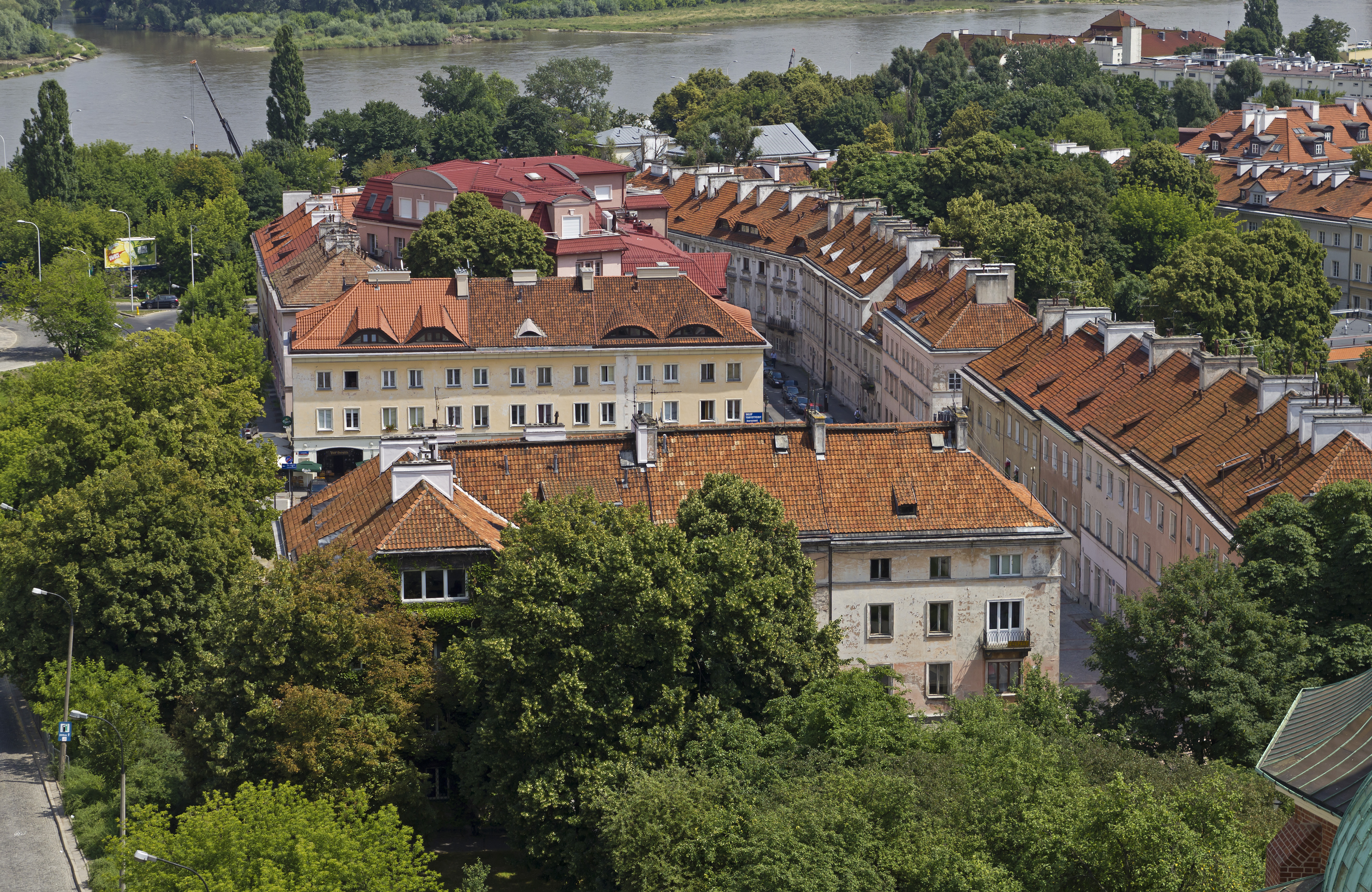 View from the St. Anne Church tower at Castle Square in the Old Town (Stare Miasto) in Warsaw (Poland). Mariensztat.